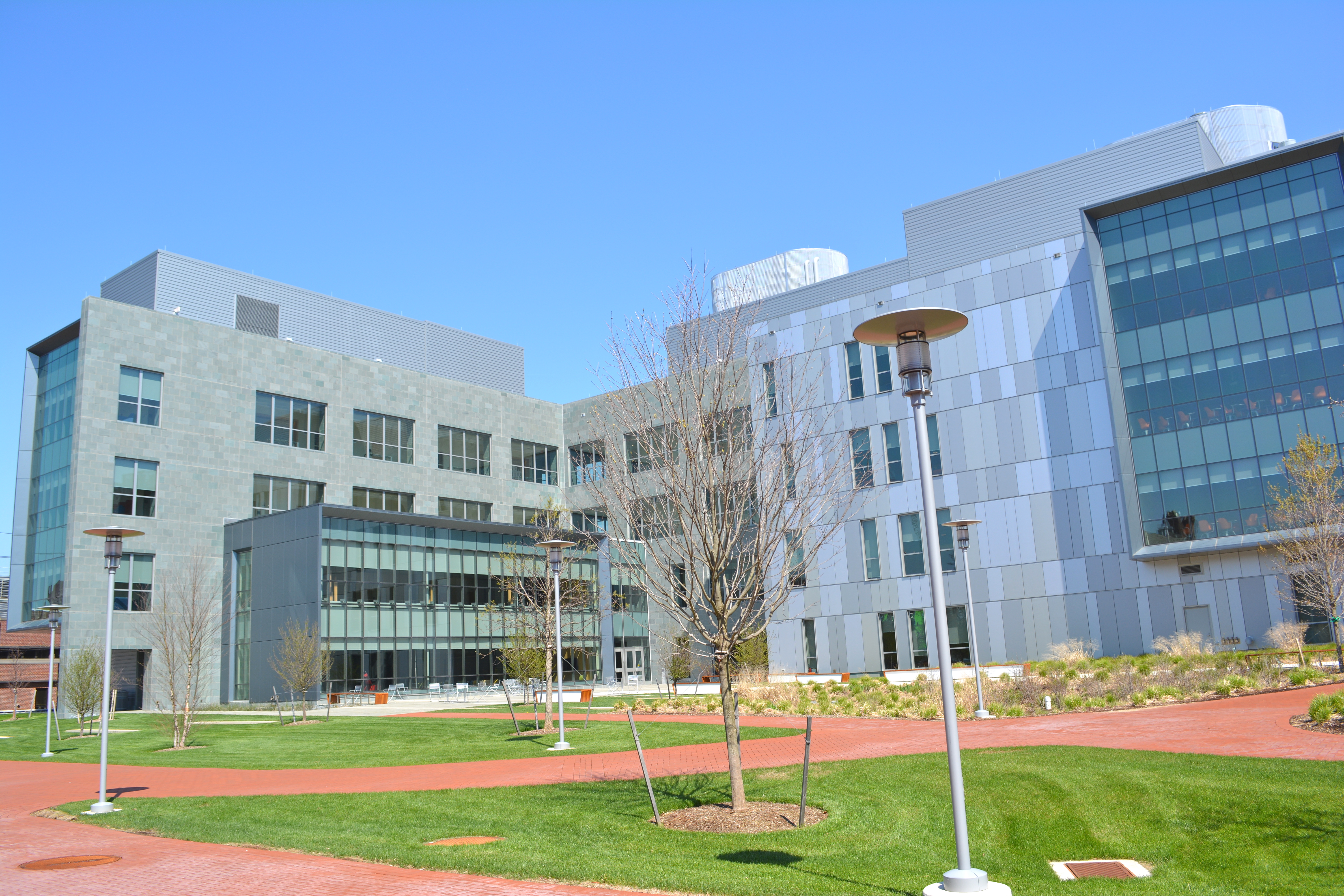 Interdisciplinary Science and Engineering Laboratory at the University of Delaware, Newark, Delaware